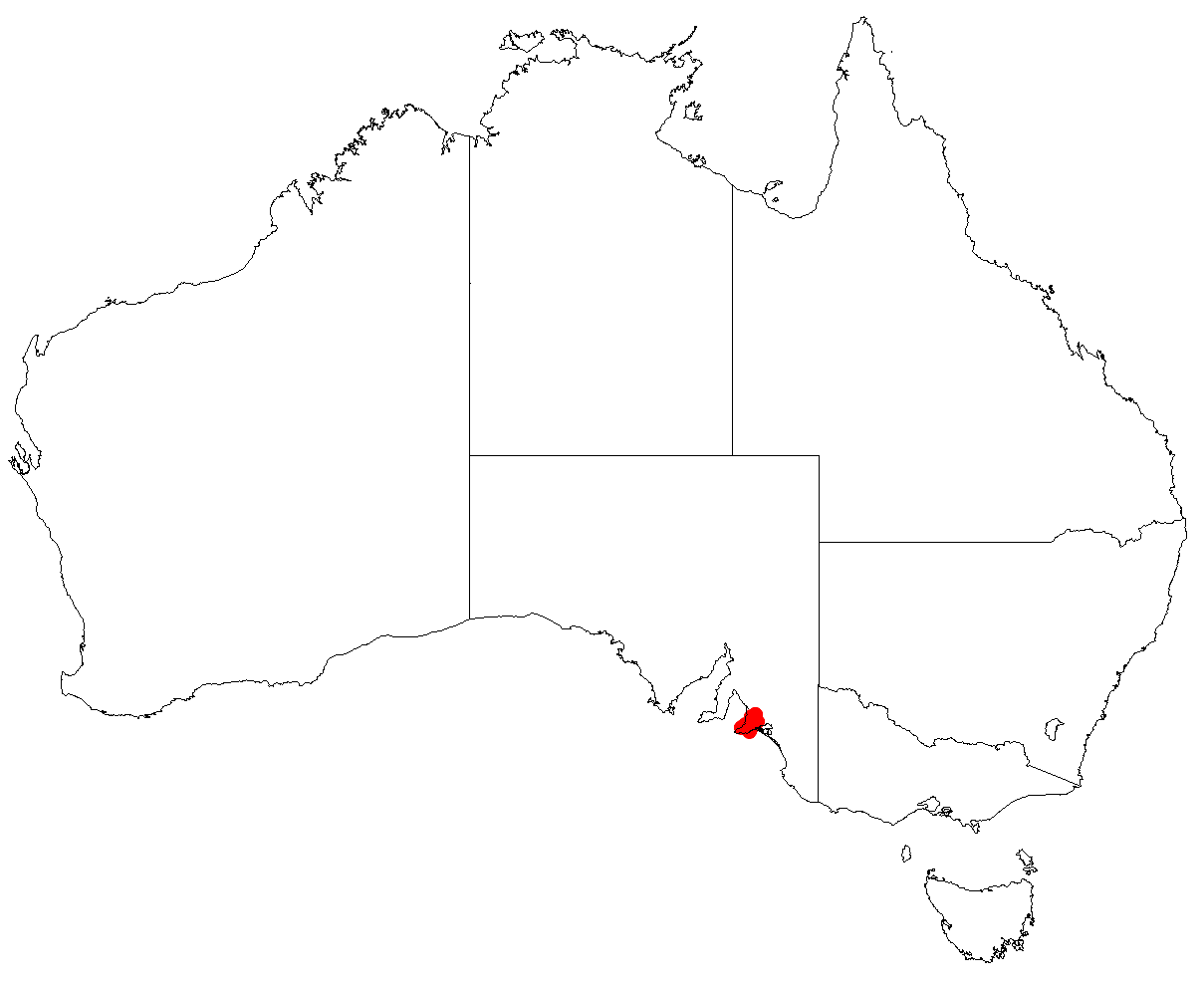 Allocasuarina robusta Occurrence data from AVH